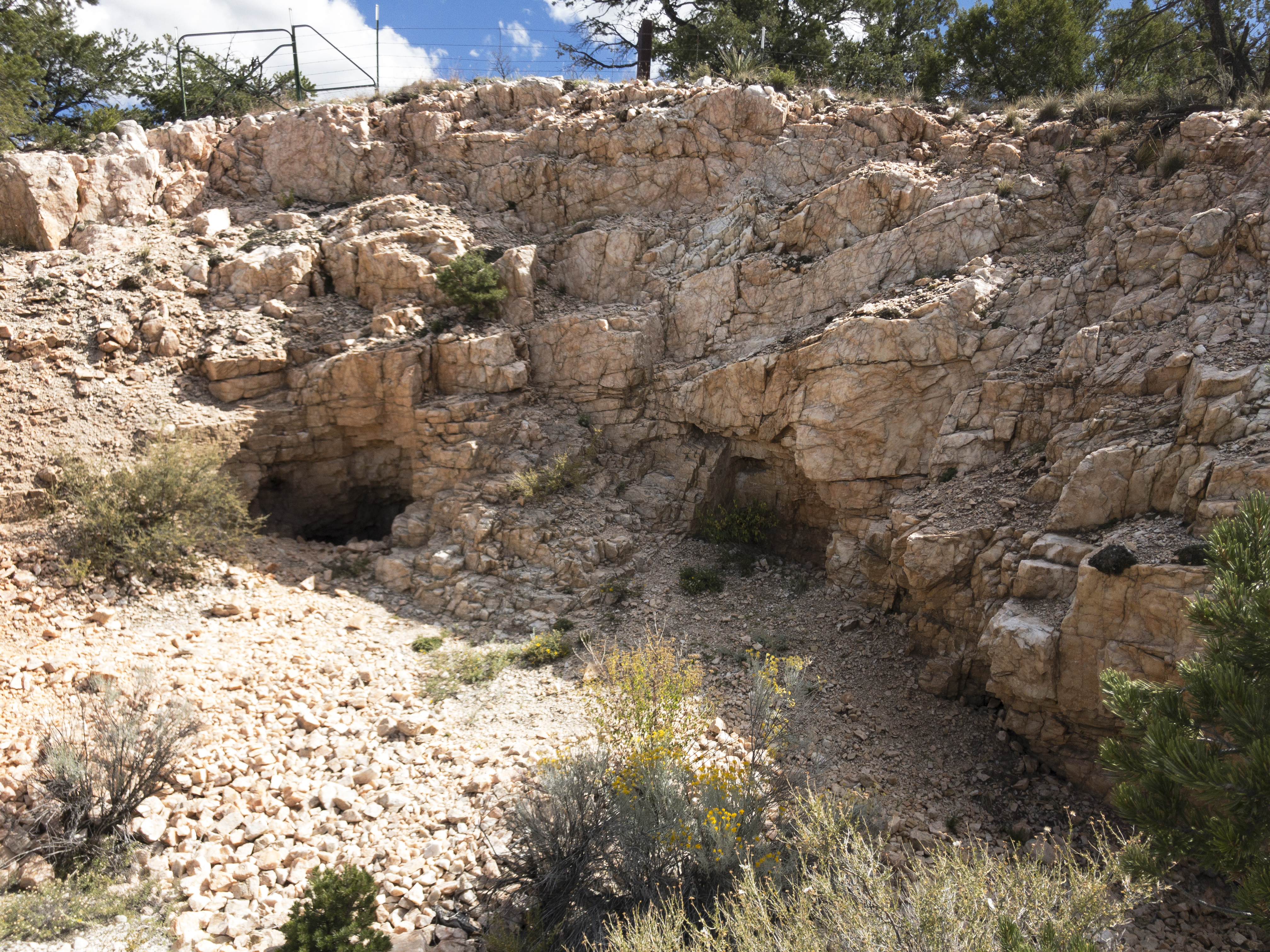 The Harding Pegmatite mine was once mined for beryl, the key source of the element beryllium, a strategic mineral. The mine is now managed by the University of Mexico. Visitors must adhere to a strict set of guidelines before going.